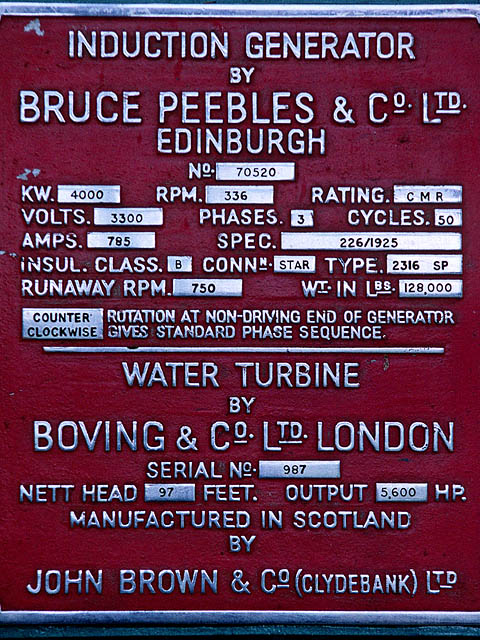 Rating plate on the Dalchonzie power station generator This was one of the largest induction generators in the country.